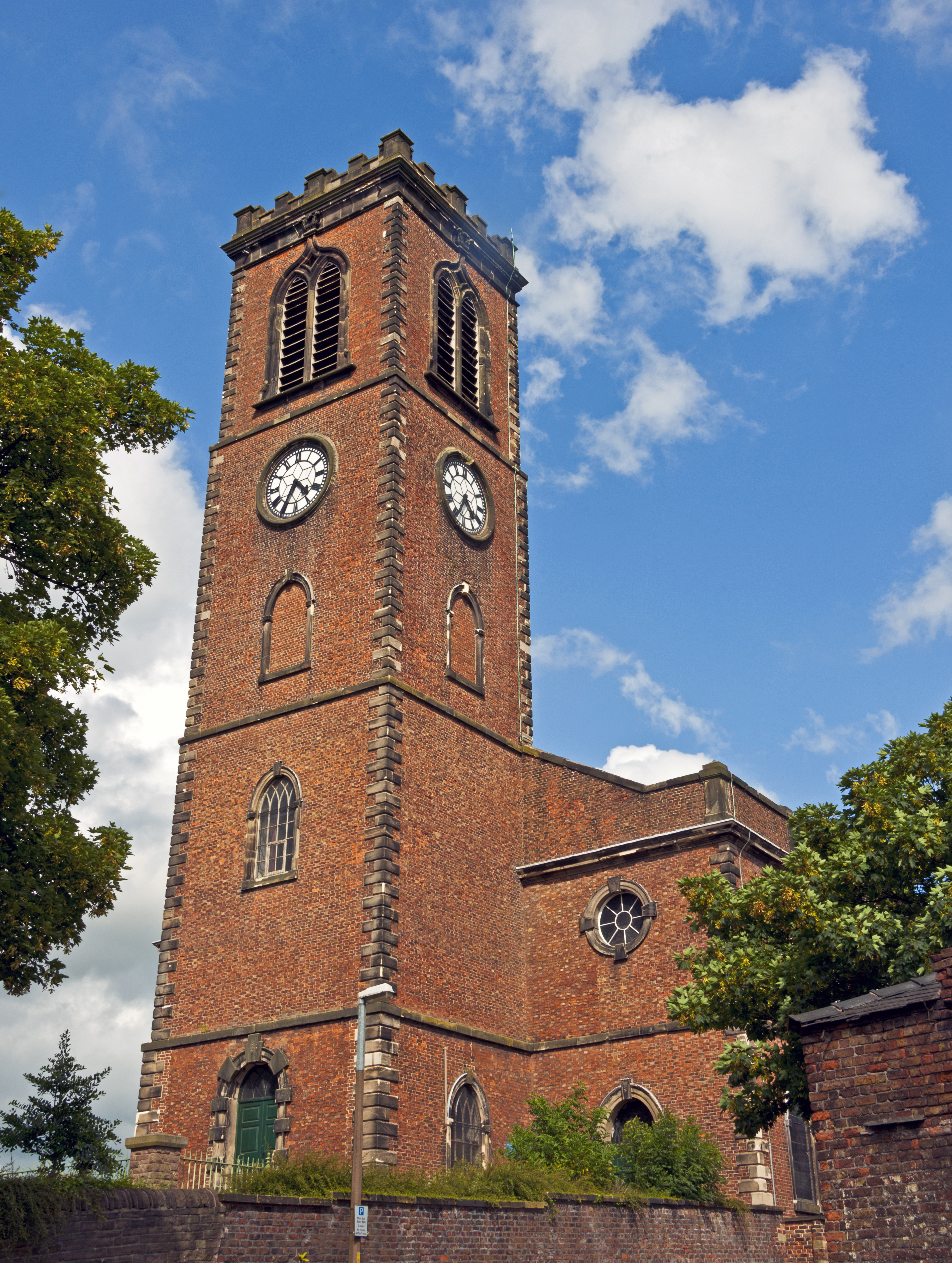 West tower of Christ Church, Macclesfield, Cheshire, seen from Shaw and Waterloo streets